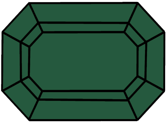 Shape of the emerald cut